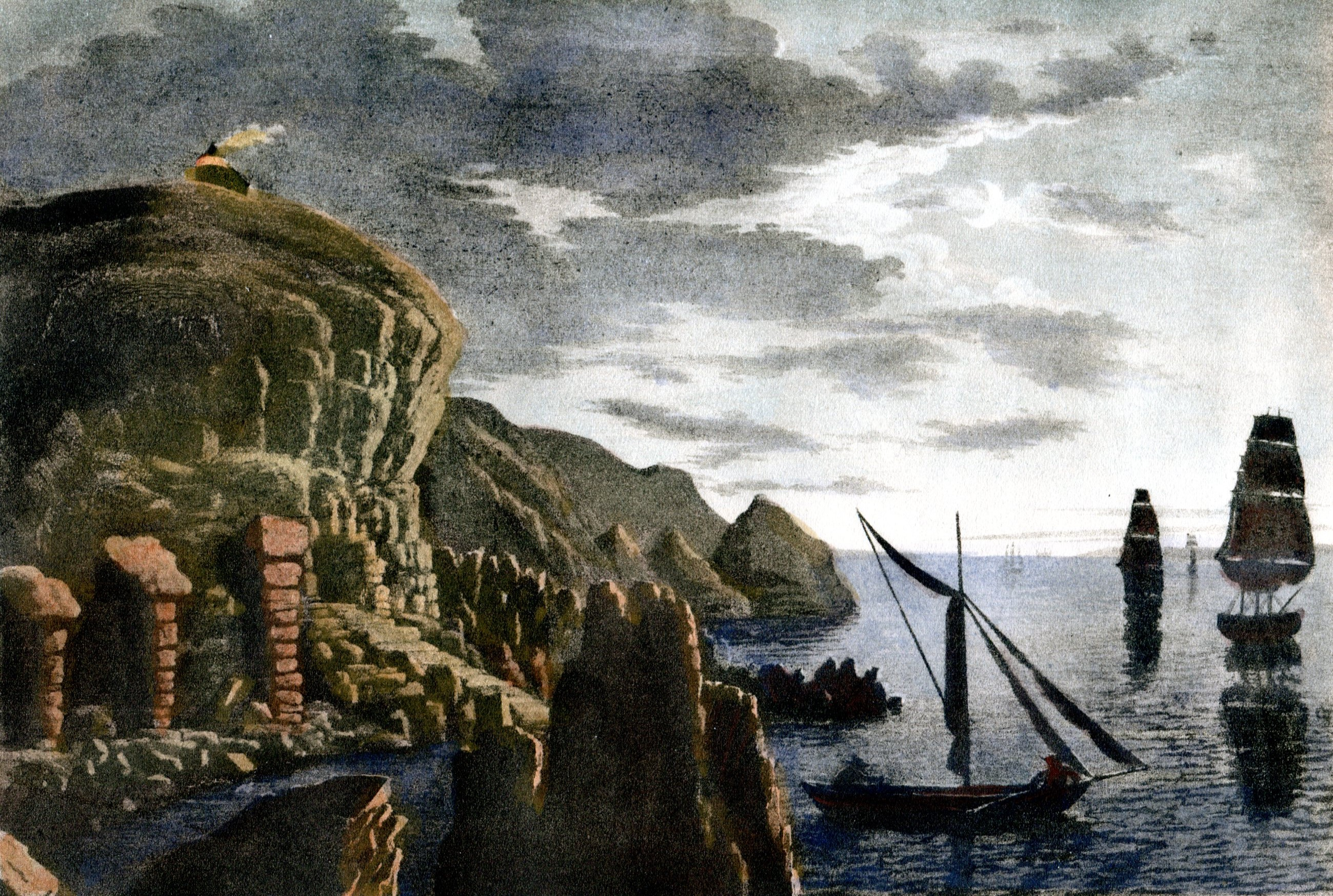 The lighthouse of Kullen, Sweden, in 1817